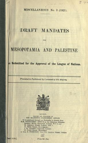 Draft mandates for Mesopotamia and Palestine as submitted for the approval of the League of Nations on December 7 1920 United Kingdom Crown copyright and Parliamentary copyright has a lifespan of 50 years